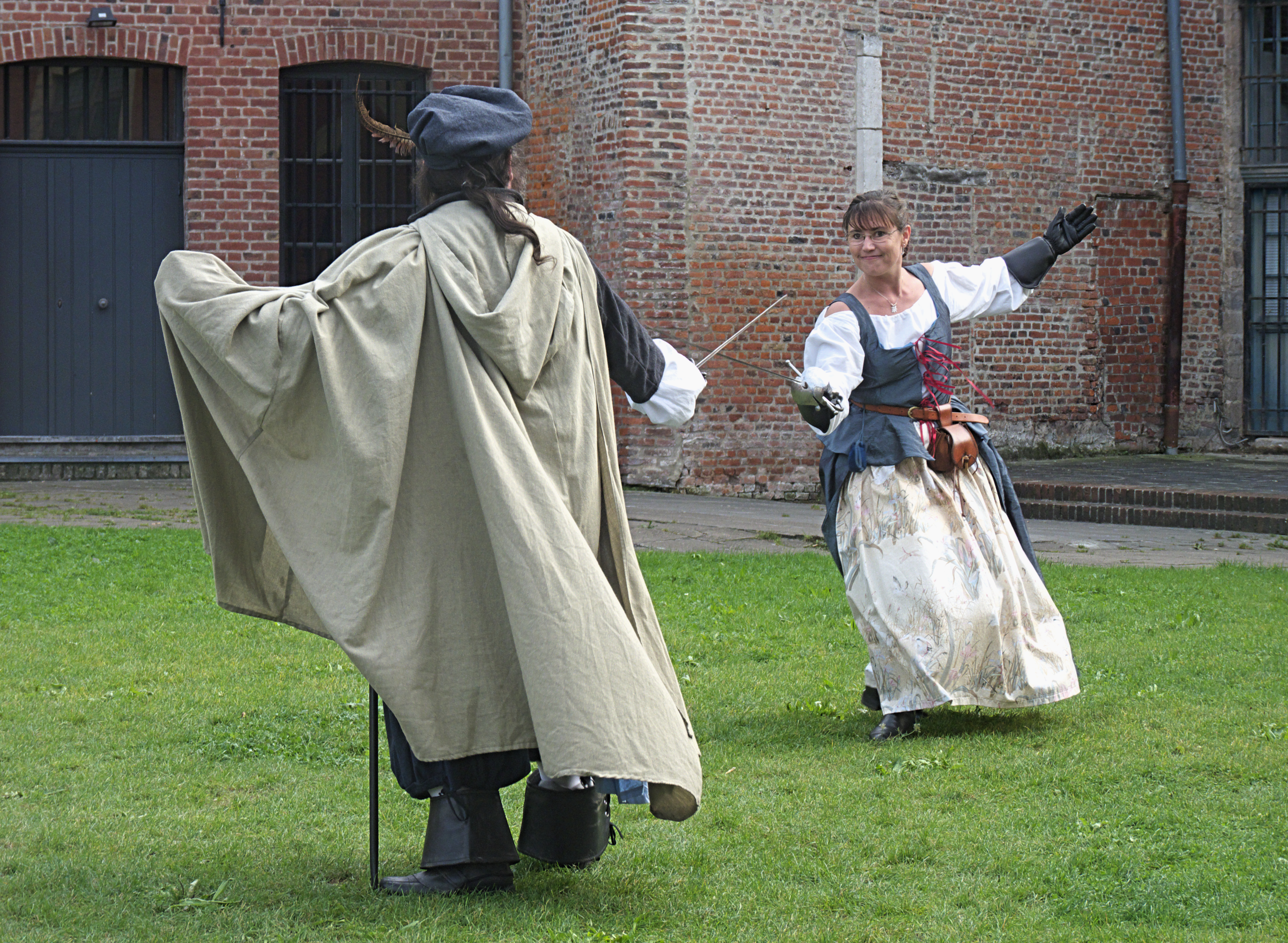 Demonstration of ancient and stage fencing in the "'îlôt Comtesse" (Vieux-Lille) in Lille, France.